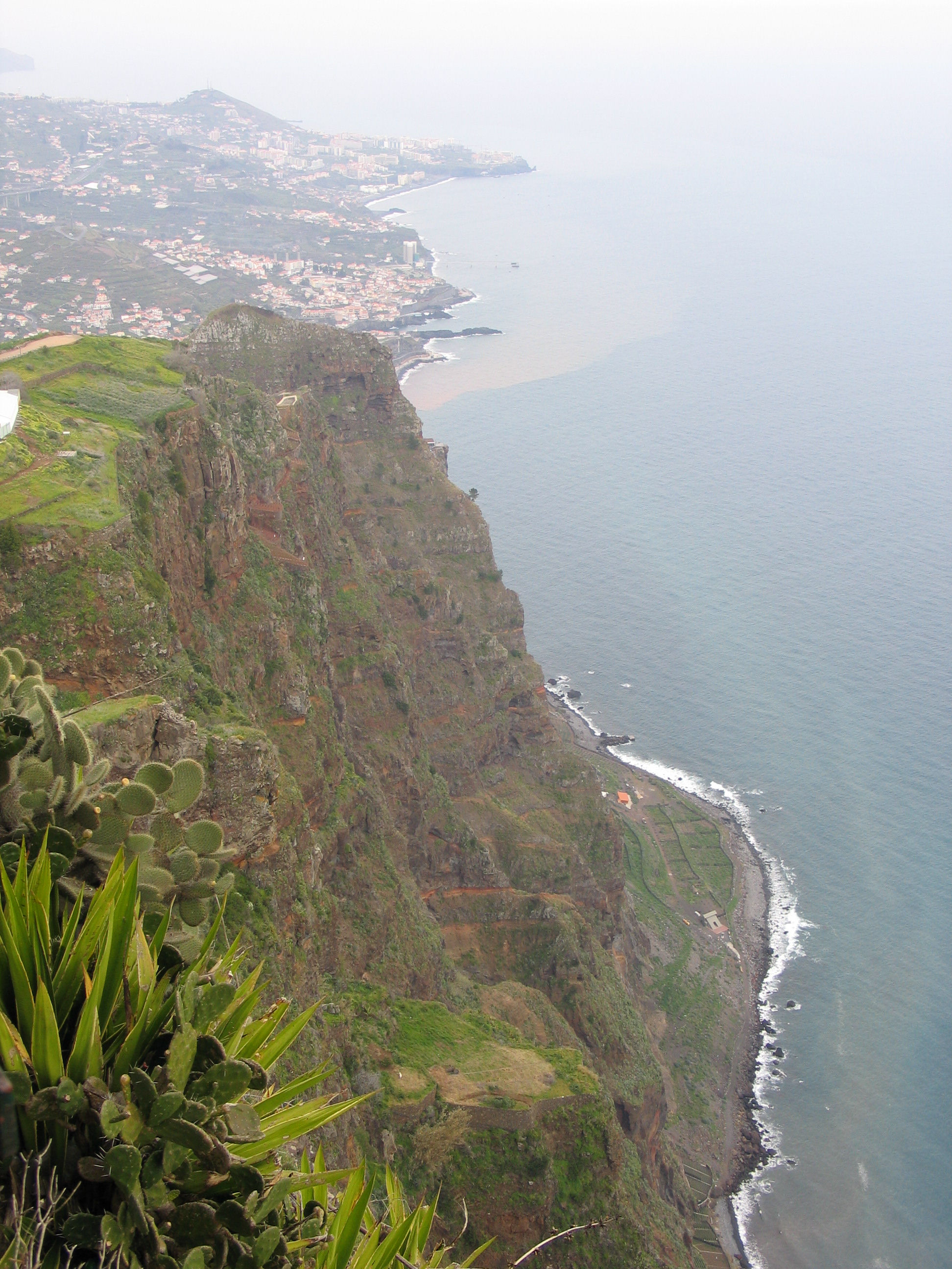 View from Cabo Girão, looking towards Funchal